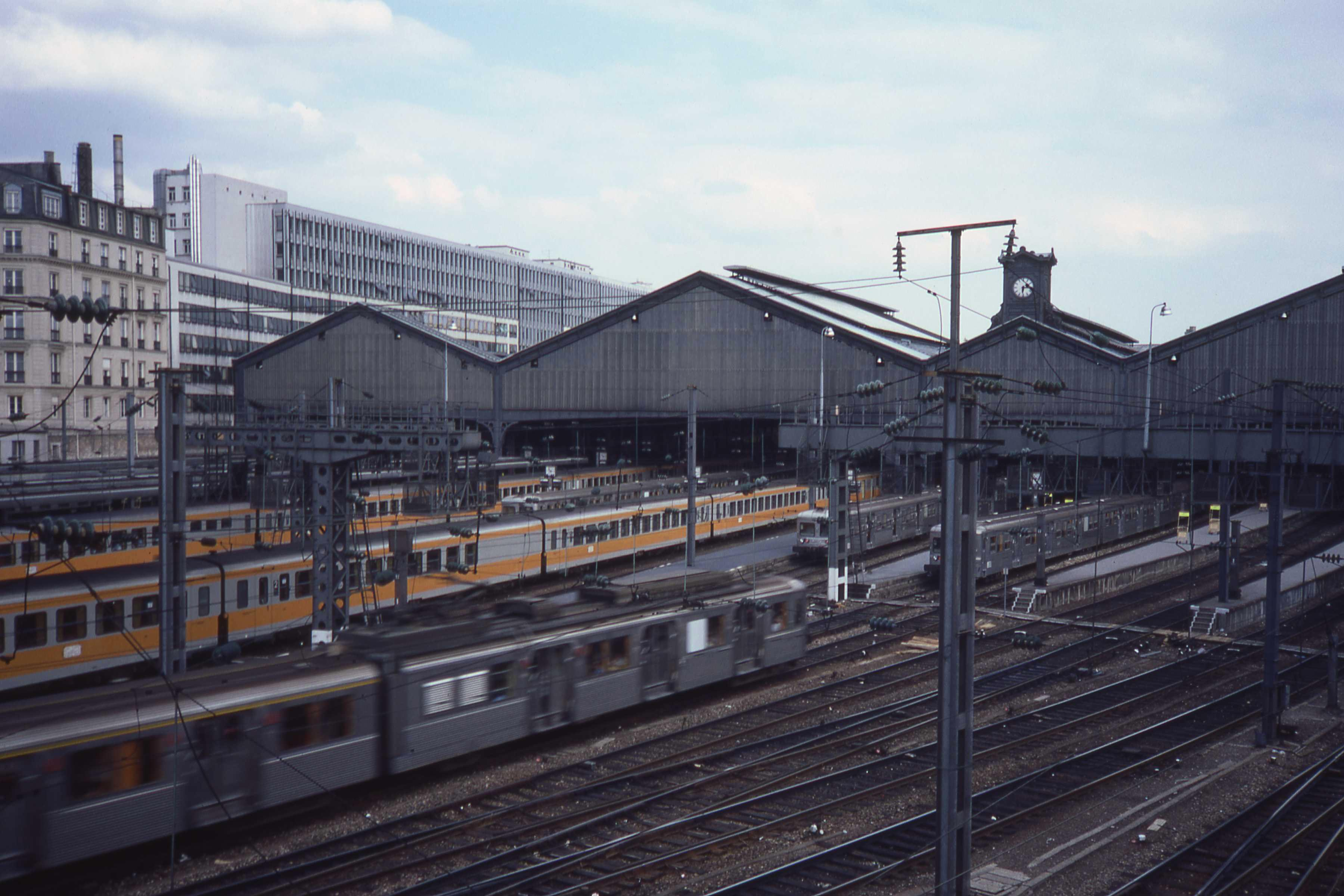 St.Lazare station in 1984, with a lot of turbotrains.